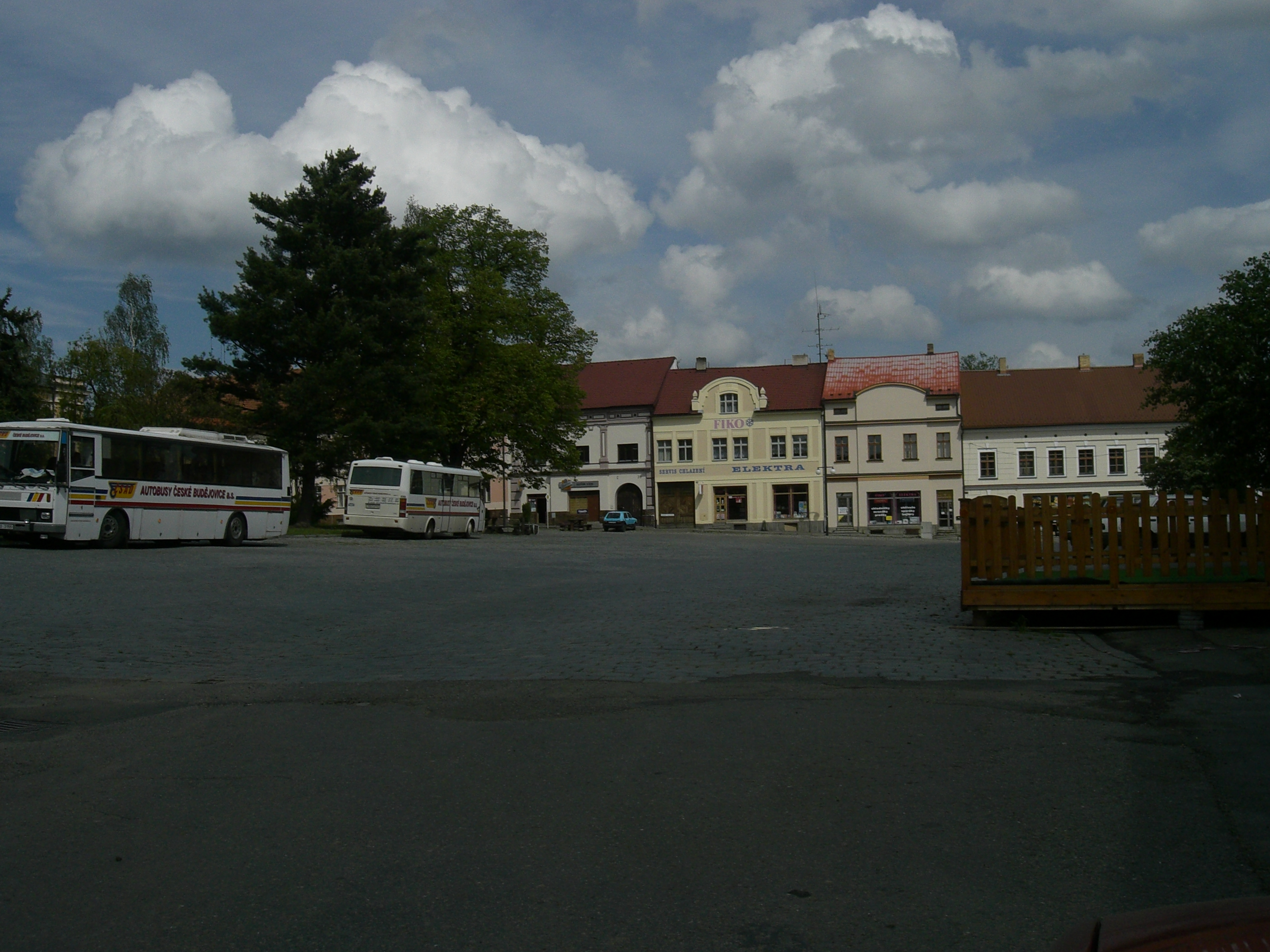 Mirovice town in Písek district, Czech Republic.